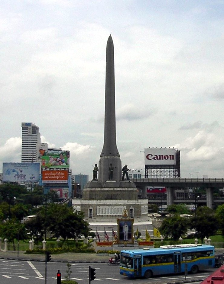 VictoryMonument.jpg with greater contrast